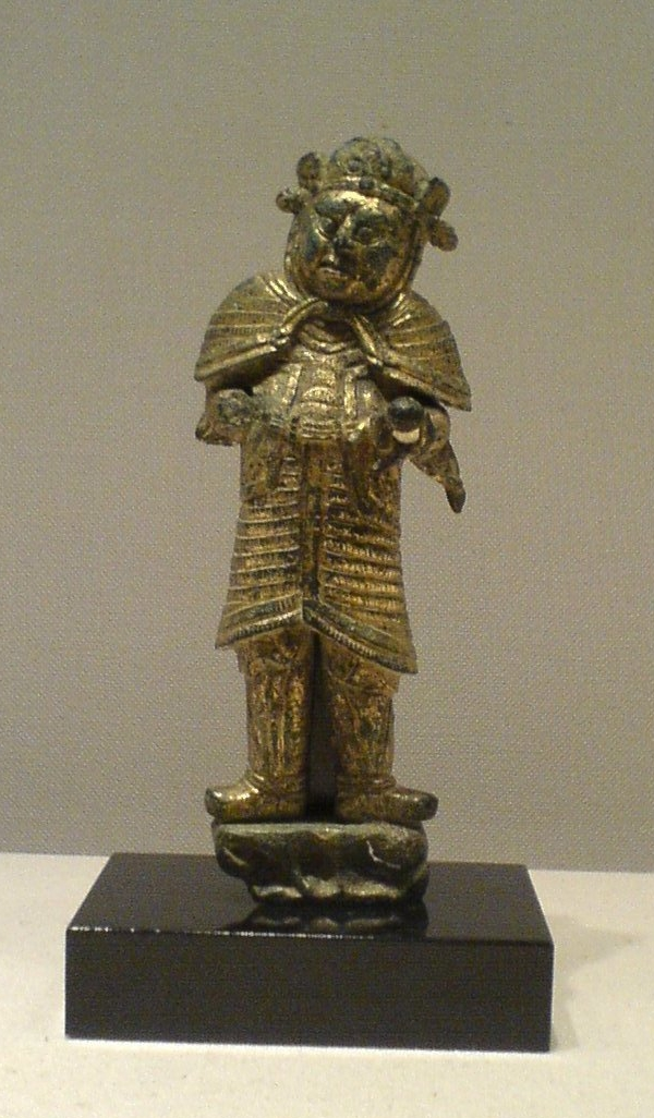 Lokapala in Tokyo National Museum, Korea, Gilt bronze, Unified Silla dynasty, 8th century, Gift of the Ogura Fondation